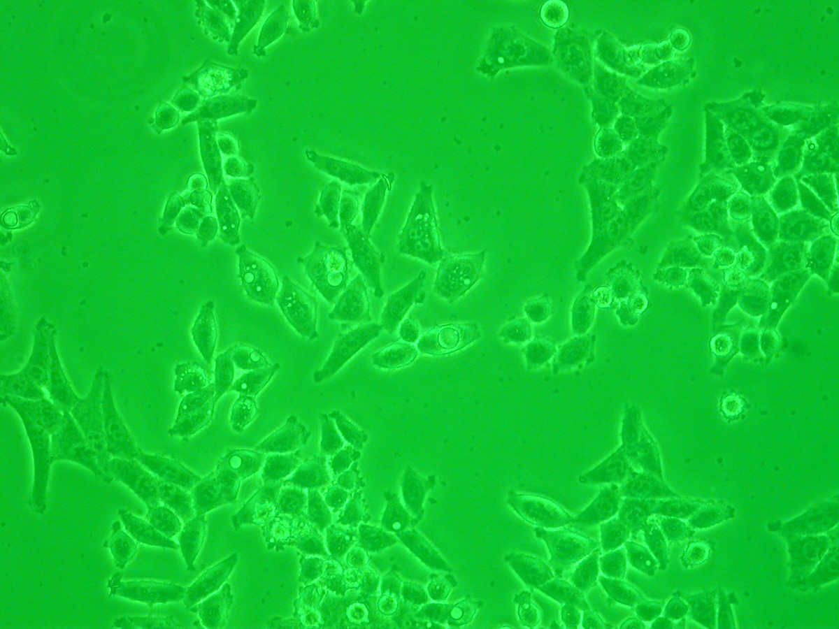 Phase-contrast microscopic image of HeLa cells. (under green light. 100-fold magnification.)